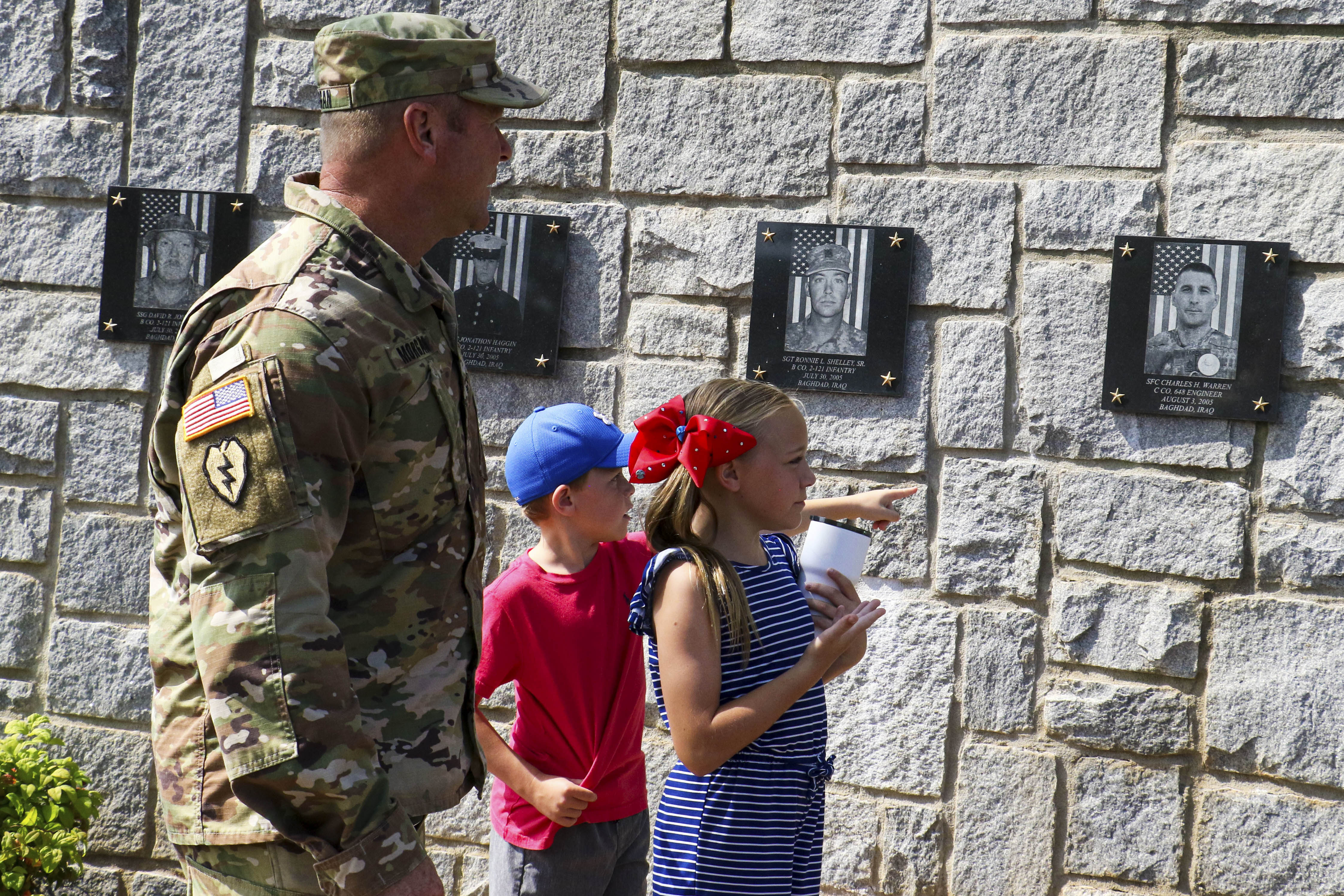 Families of the Georgia National Guard attended the Memorial Day Observance at Clay National Guard Center, Marietta, Ga. on May 23, 2019. Guests in attendance were encouraged to walk through at the Memorial Wall after the conclusion of the ceremony.